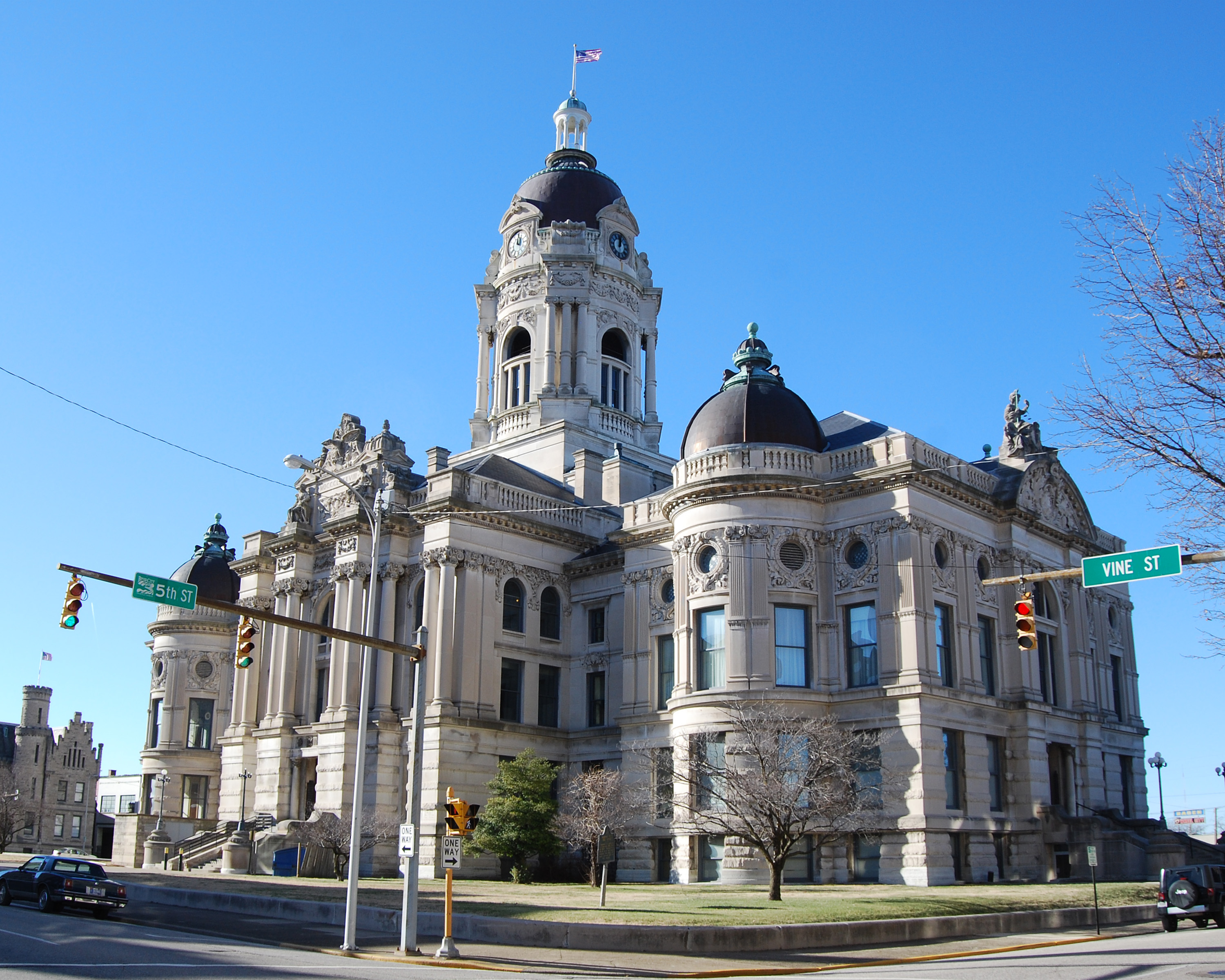 Old courthouse in Evansville, Indiana, USA